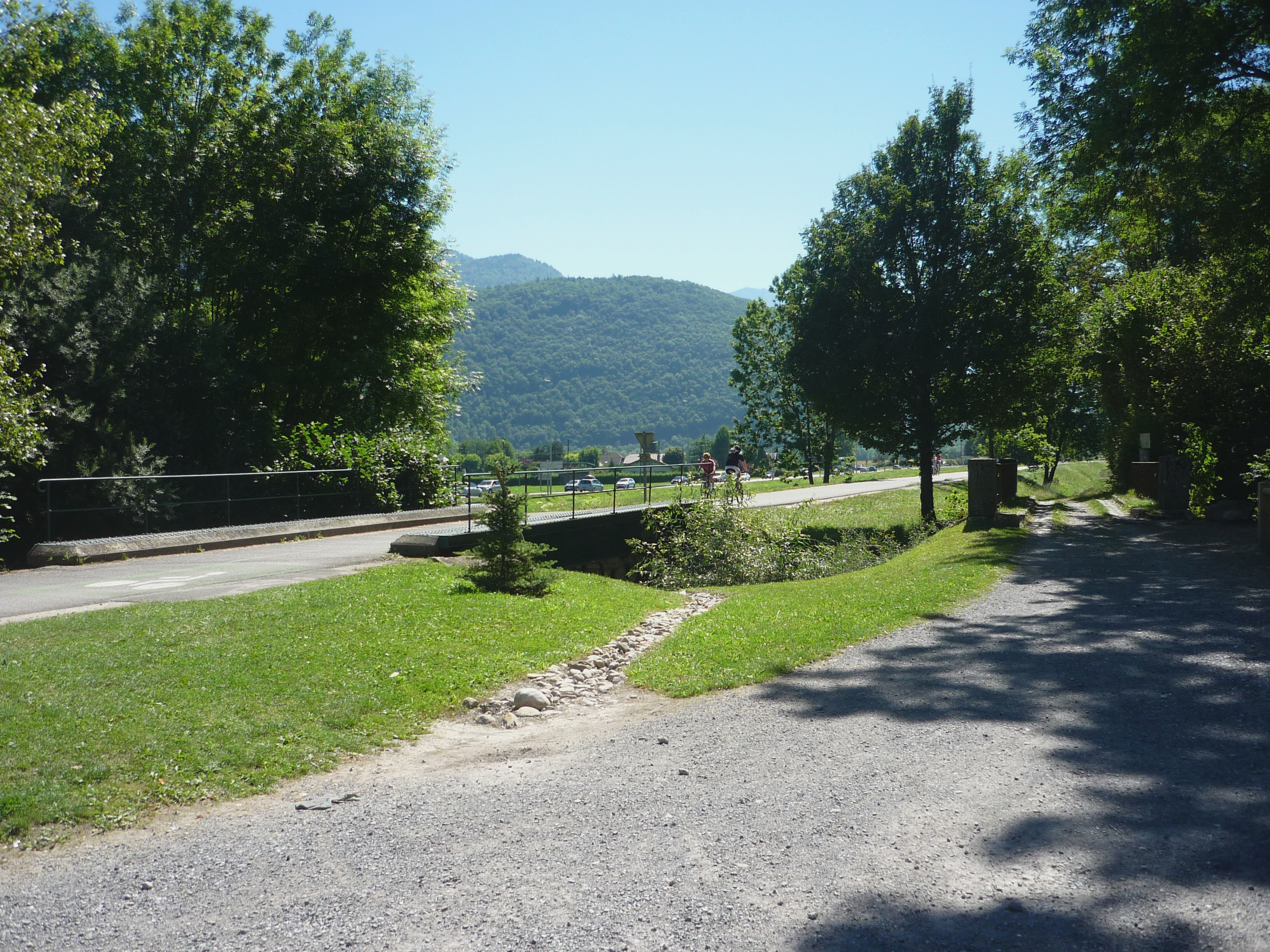 Doussard, Haute-Savoie, France